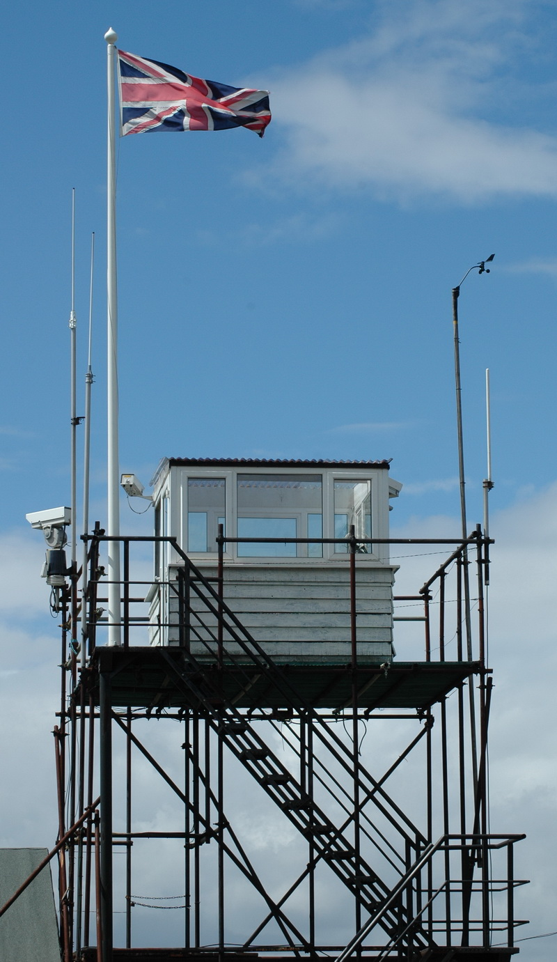 Tower at White Waltham Airfield